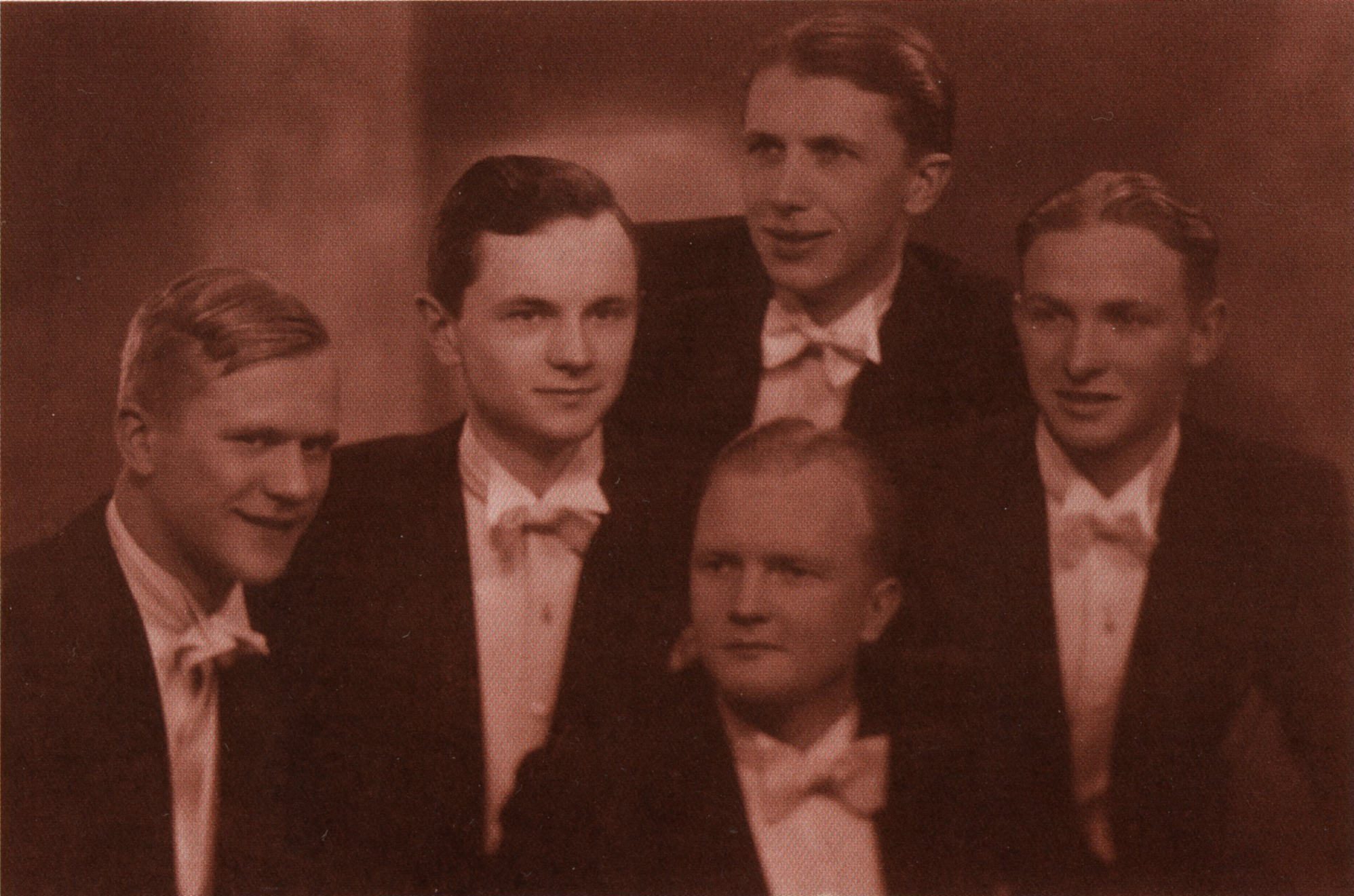 Most popular Lithuanian music group of the early 1940s